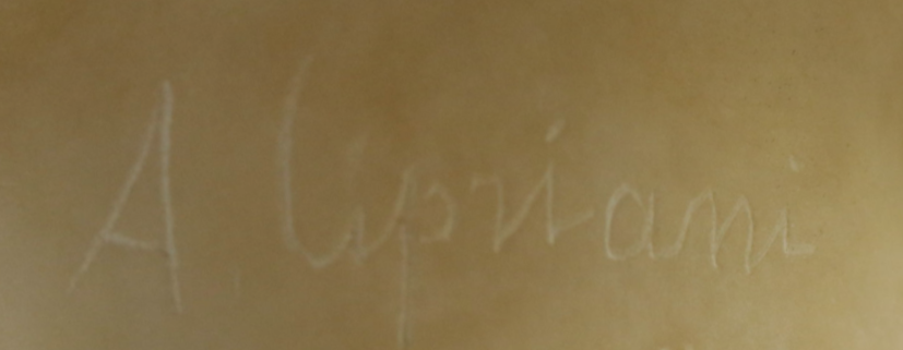 Signature of Italian sculptor Adolfo Cipriani